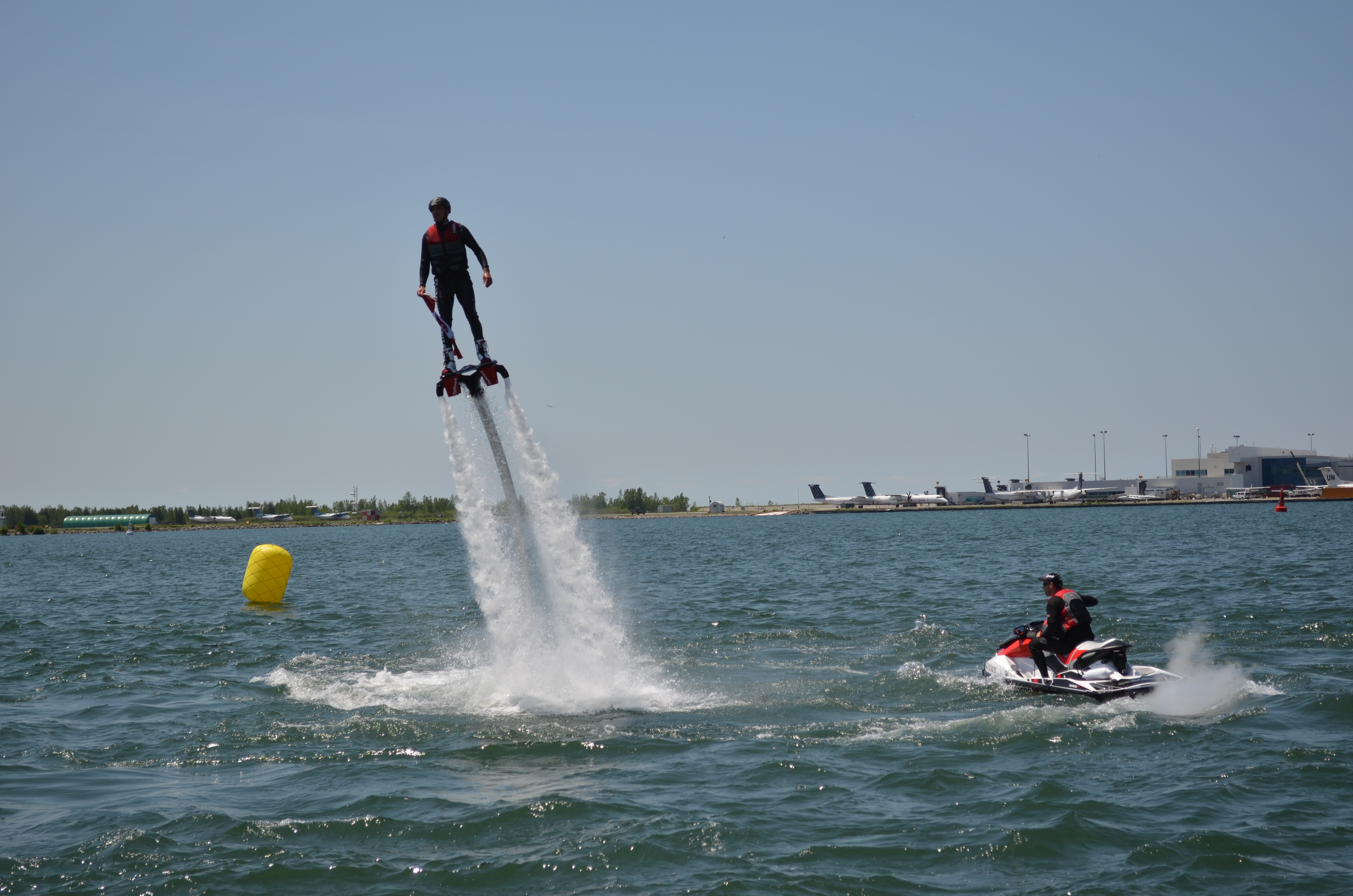 Flyboard demo, Toronto Water front